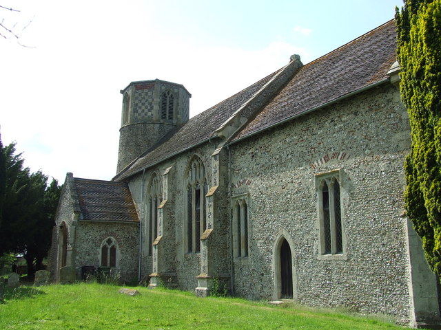 St Margaret Breckles. The church of St Margaret Breckles, Norfolk for more info for more views see 1361610 1389607 1389621